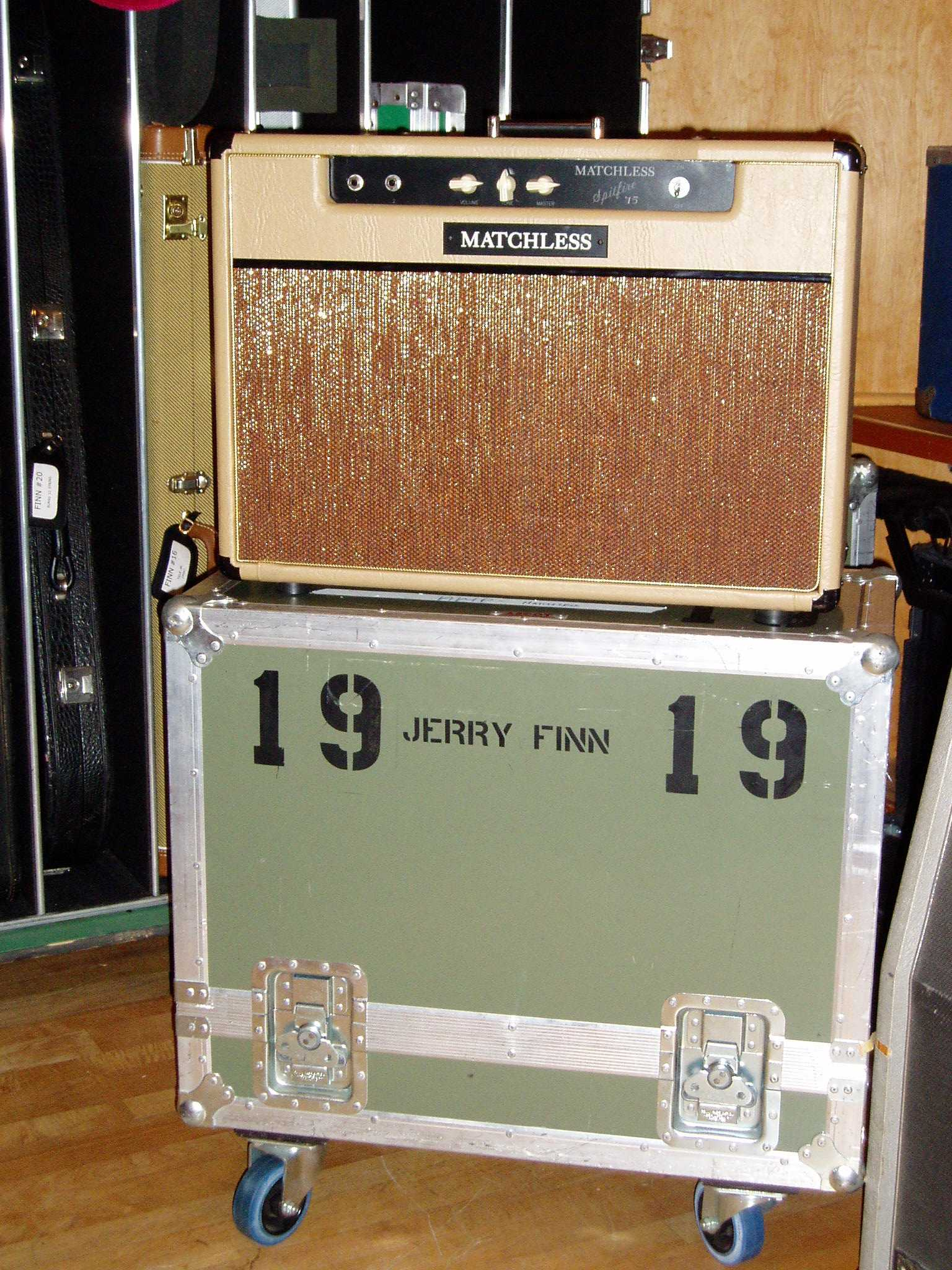 Producer and engineer Jerry Finn's recording equipment at Conway Recording Studios in Hollywood, California on September 11, 2003.